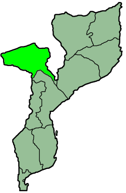 Map of Tete Province, Mozambique